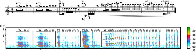 Proposed musical notation of male song corresponding to the parts represented in the spectrogram (upper part); Sample spectrogram of male rock hyrax song (lower part). Different vocal elements are marked and coded as W-Wail, C-Chuck and S-Snort. The representation order of singing bouts corresponds to natural temporal progression of a typical male hyrax song (beginning – low complexity, middle – low/intermediate complexity. end – high complexity). Vertical lines mark bout boundaries